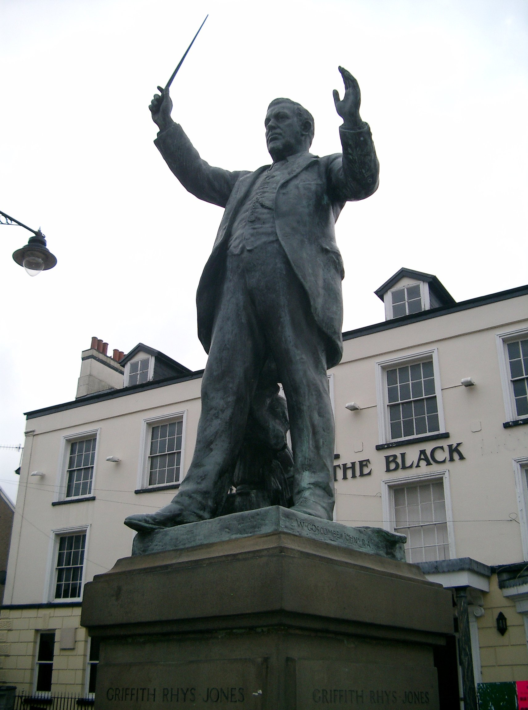 Caradog Statue, situated in Victoria Square, Aberdare. Caradog (Griffith Rhys Jones) was the conductor of the famous 'Côr Mawr' of some 460 voices (the South Wales Choral Union), which twice won first prize at Crystal Palace choral competitions in London in the 1870s. His statue is by the sculptor W. Goscombe John and it was unveiled by Lord Aberdare on 10 July 1920. This image has been donated by the Aberdare Blog project which is attempting to record all the principal sculptures and monuments associated with Aberdare.